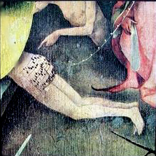 The Garden of Earthly Delights detail